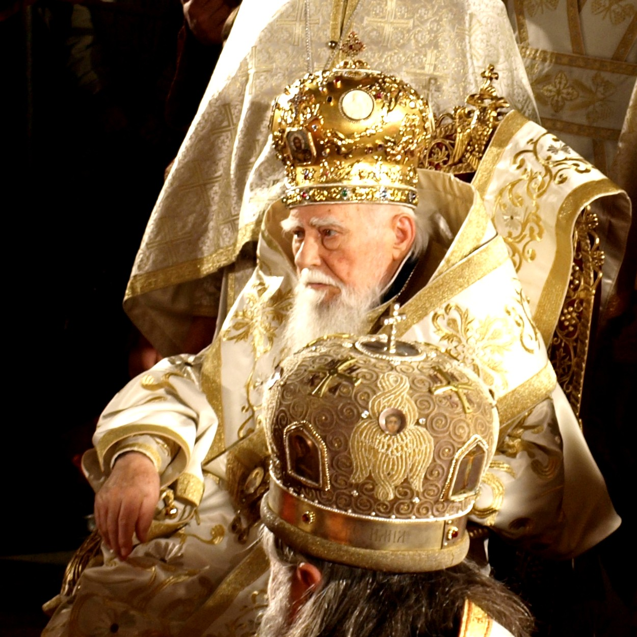 The Patriarch of the Bulgarian Orthodox church Maxim at the canonization of the Saint Martyrs from Batak in the cathedral temple-monument "Saint Alexander Nevsky" in Sofia.